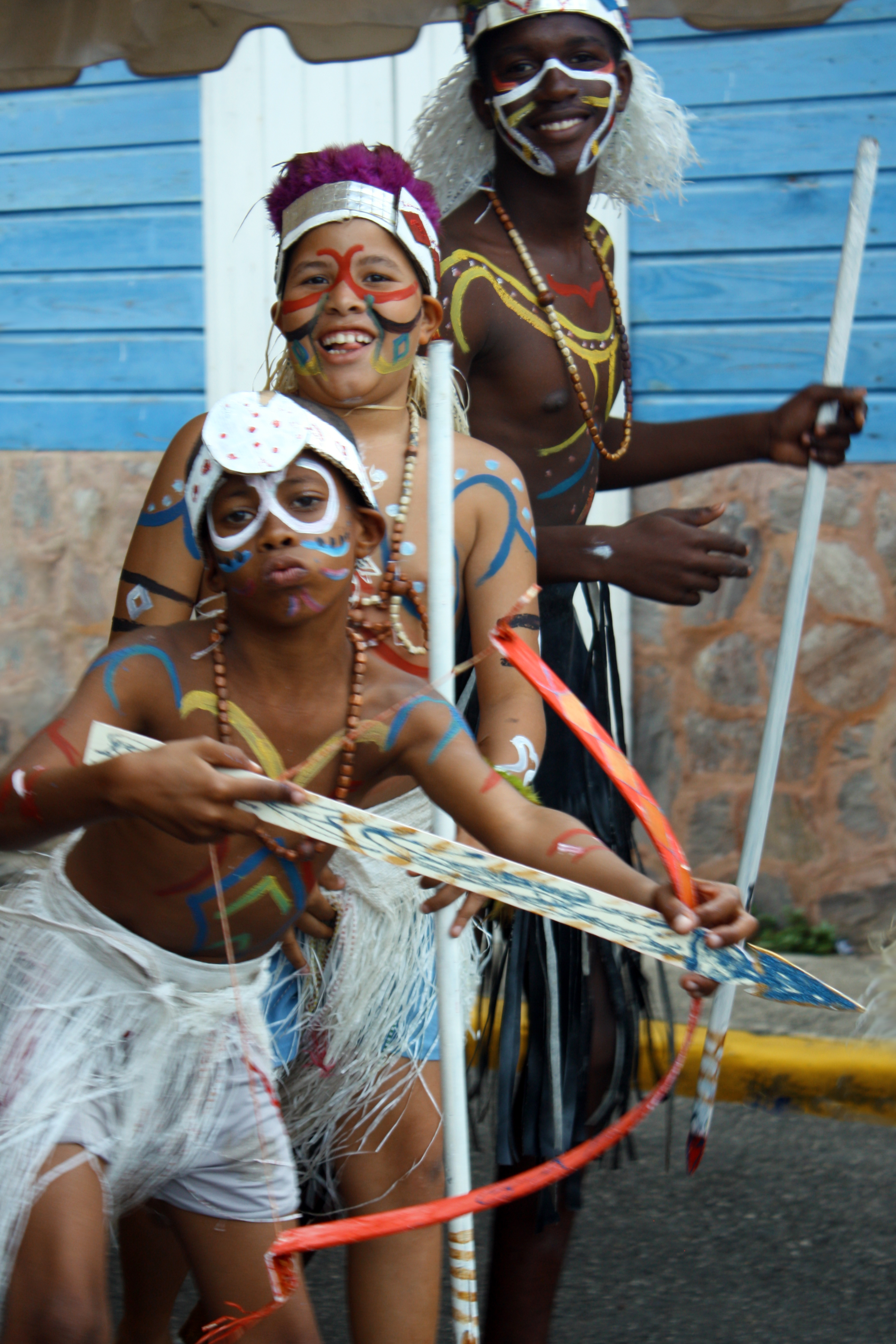 puerta plata, dominican republic, carnaval, carnival, costumes